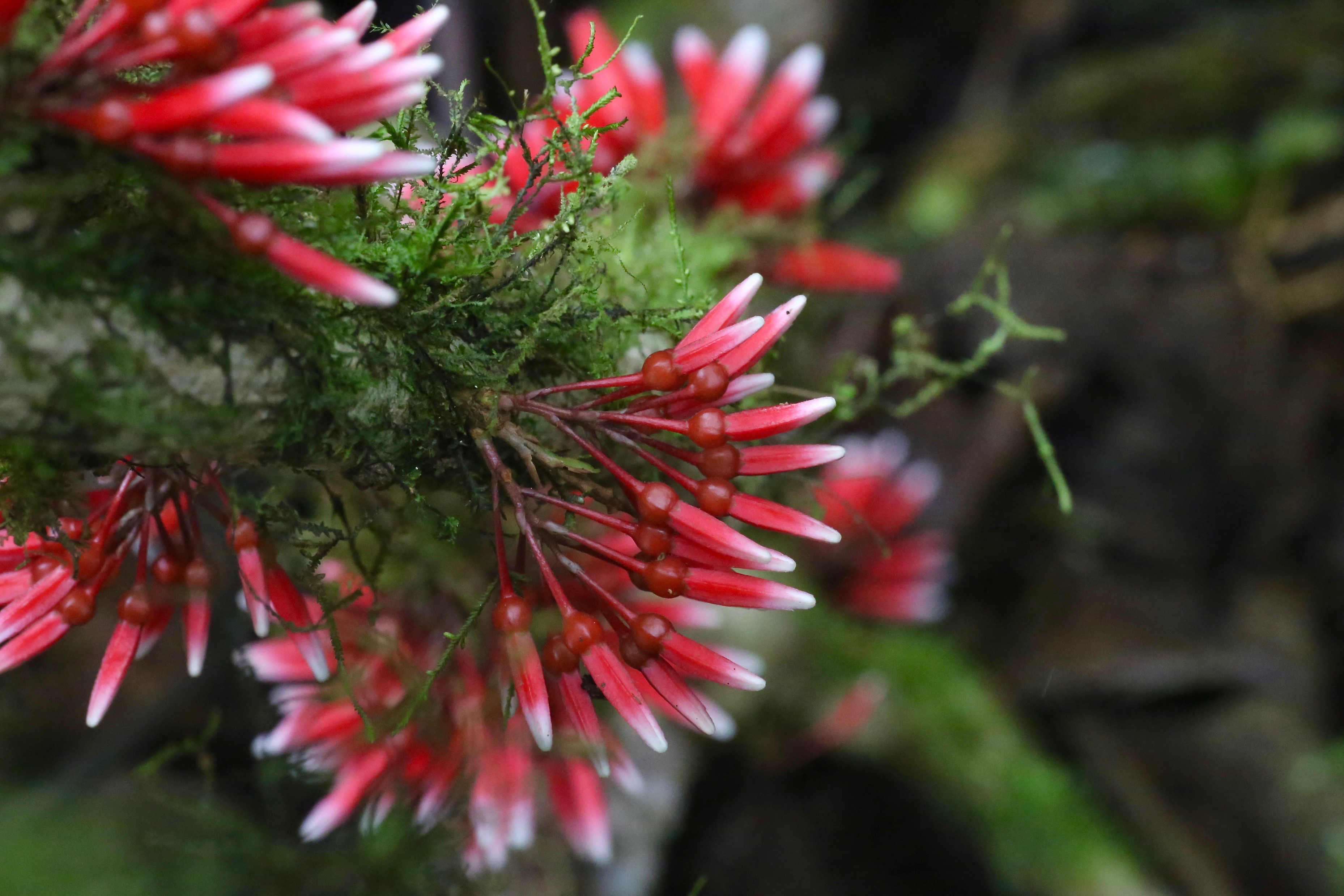 Ecuador, Mindo, Yellow house trail.